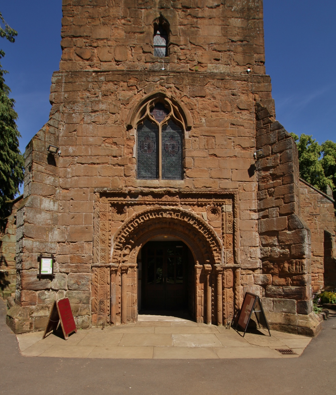 West windows and Norman west doorway of the parish church of St Nicholas, Kenilworth, Warwickshire